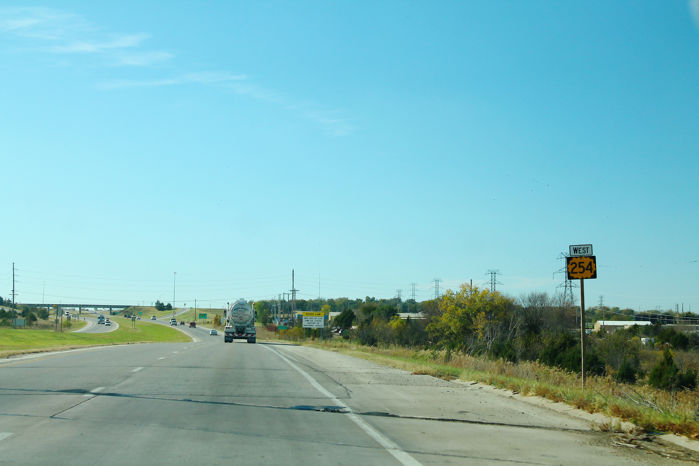 KS254wRoadSign